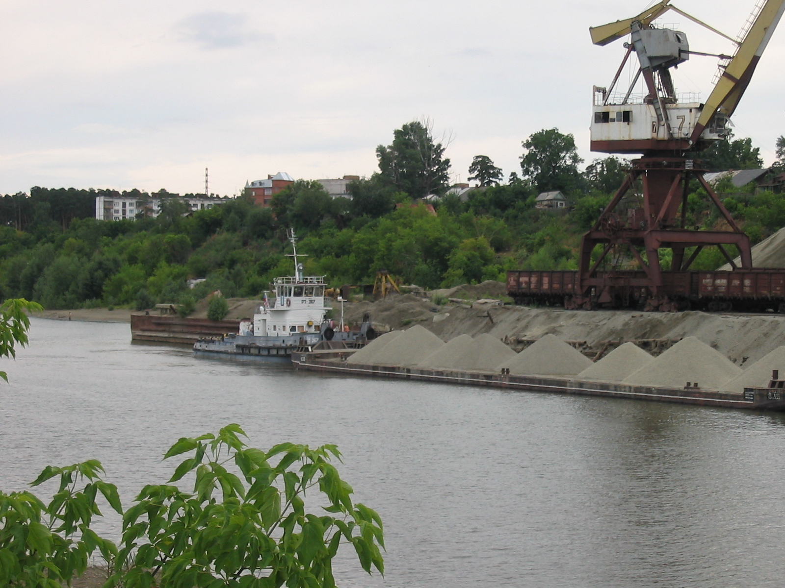 Riverport in Biysk (Biya river). Ships: RT-367